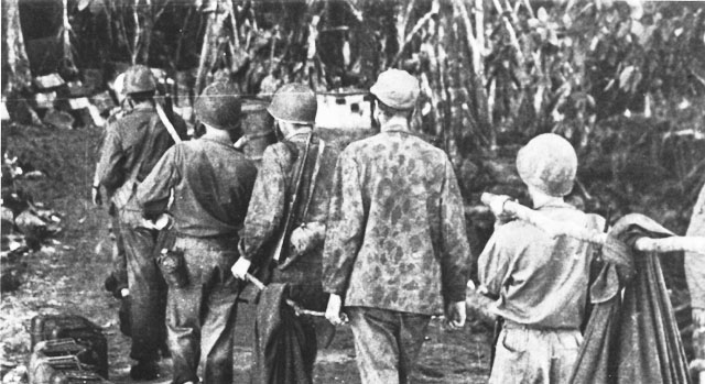 A burial detail buries dead Marines during the Dragons Peninsula campaign on New Georgia, July or August 1943.